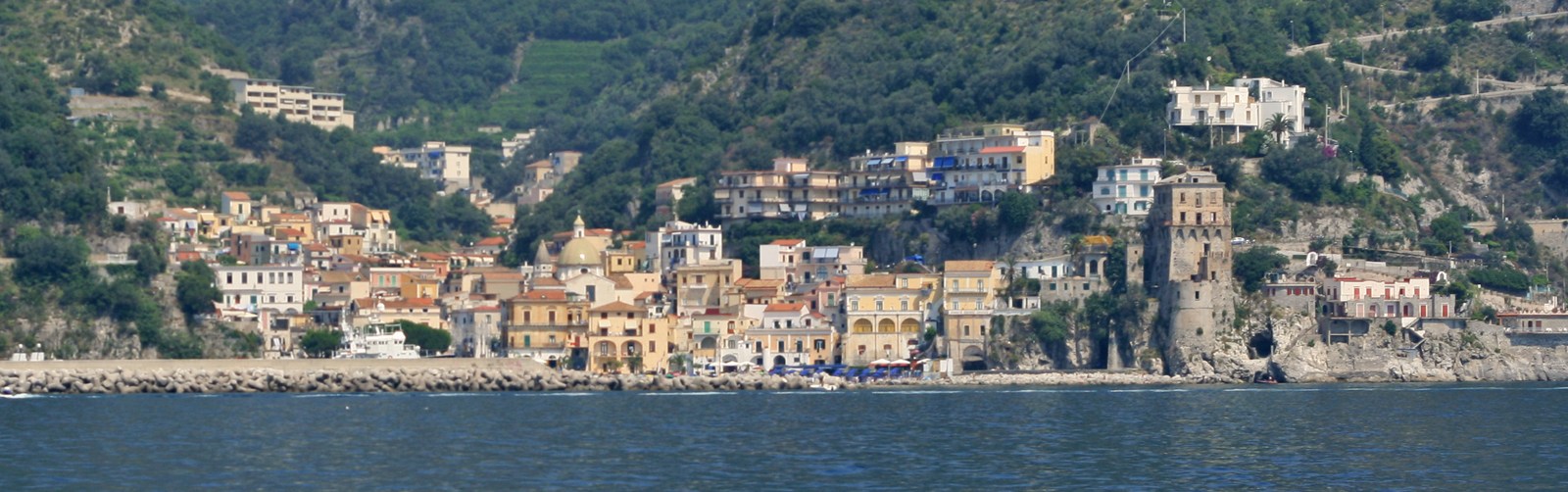 Cetara on the Coast of Amalfi, Italy